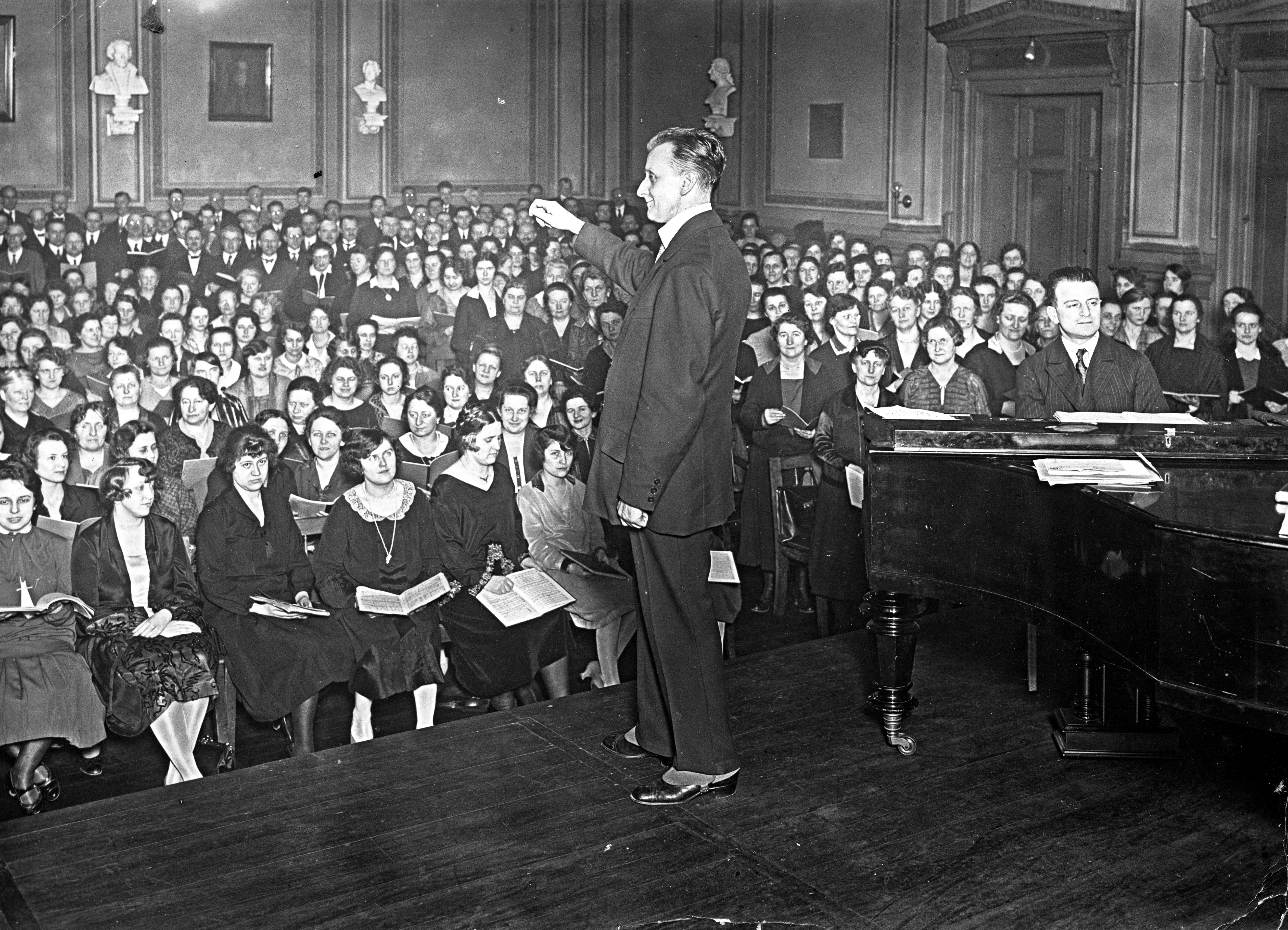 Bruno Kittelschen Chor. Kittel stands, Werner Liebenthal sits at the piano. Taken in Charlotten-Lyzeum, Berlin Stylitzer Str. (1920-1928).